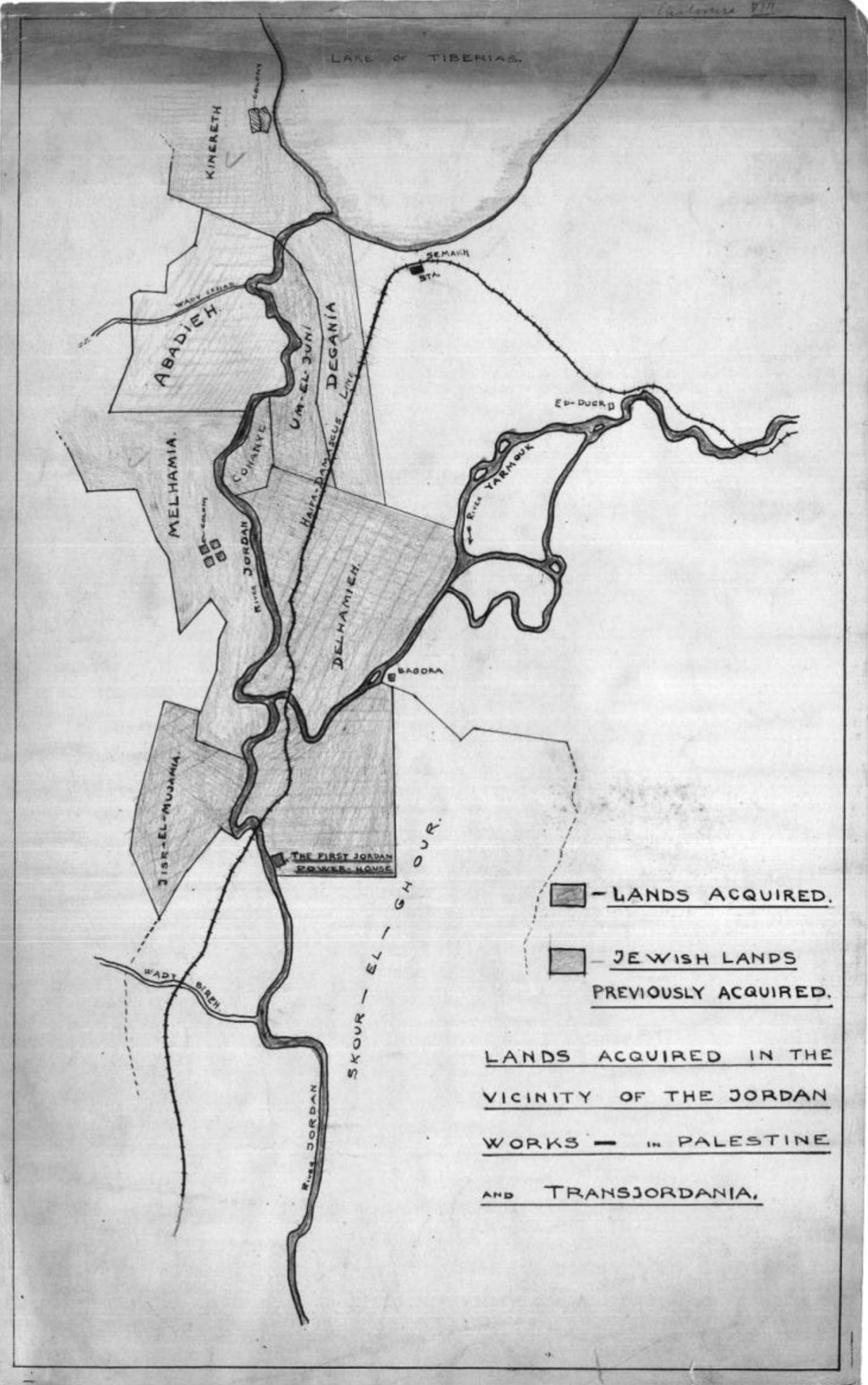 Lands Acquired in the Vicinity of the Jordan Works in Palestine and Transjordania, from the Palestine Electric Company Archives